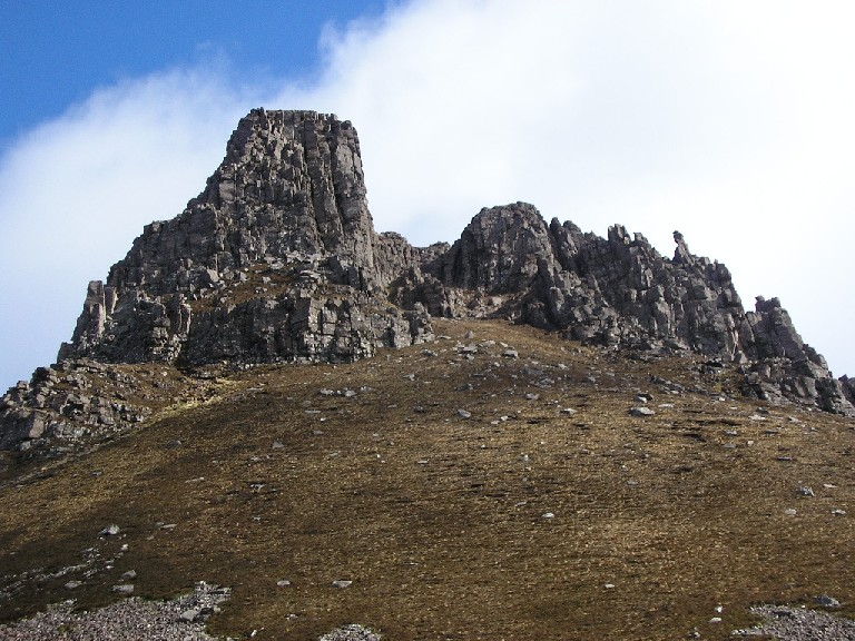 Summit of Stac Pollaidh, seen from below. Taken by User:Grinner on 4th April 2005.